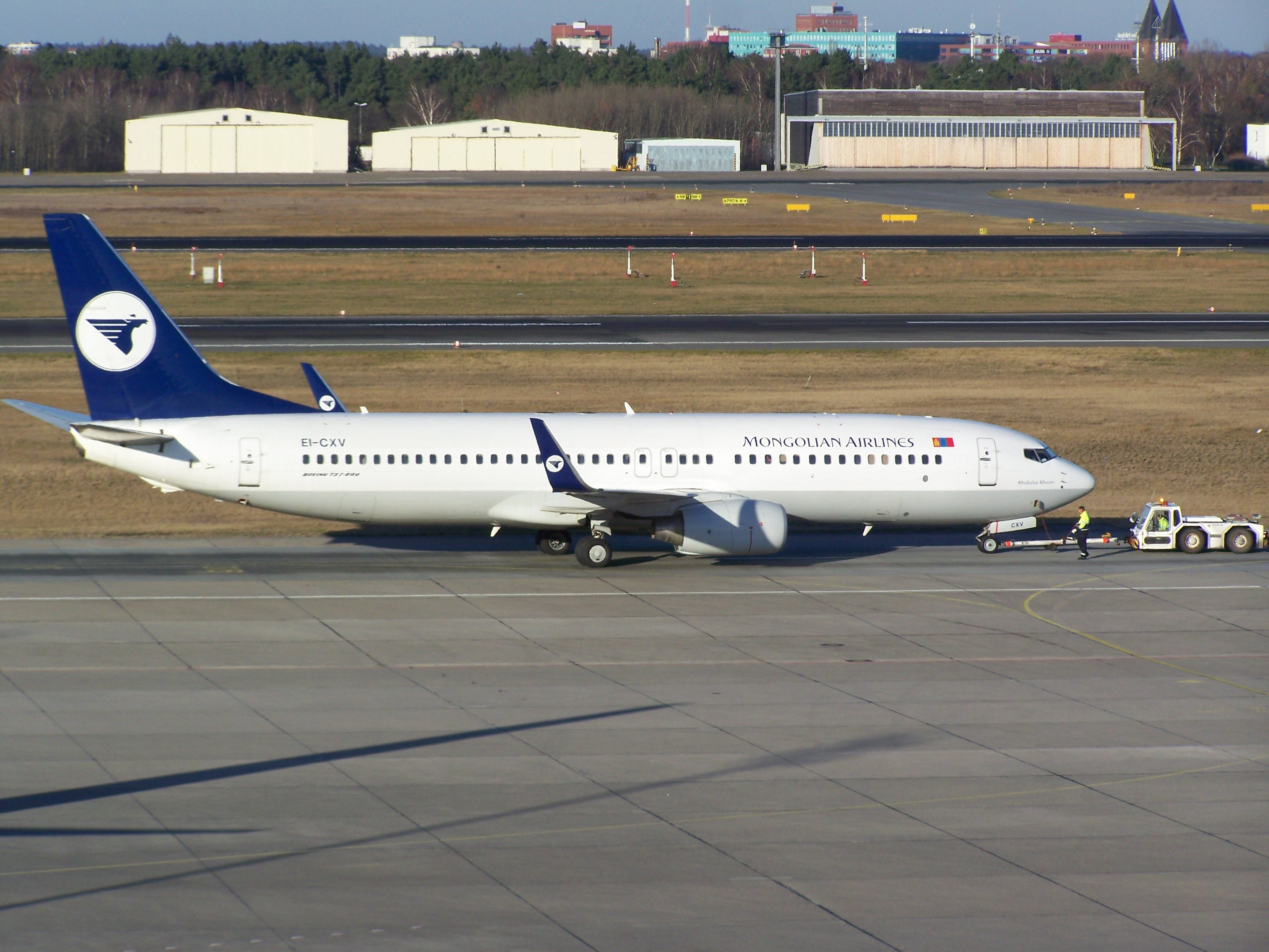 Boeing 737-800 EI-CXV „Khubelai Khaan“ of Mongolian Airlines at EDDT, just after pushback, about to taxi for take-off on runway 26L. Both runways are visible in the background.